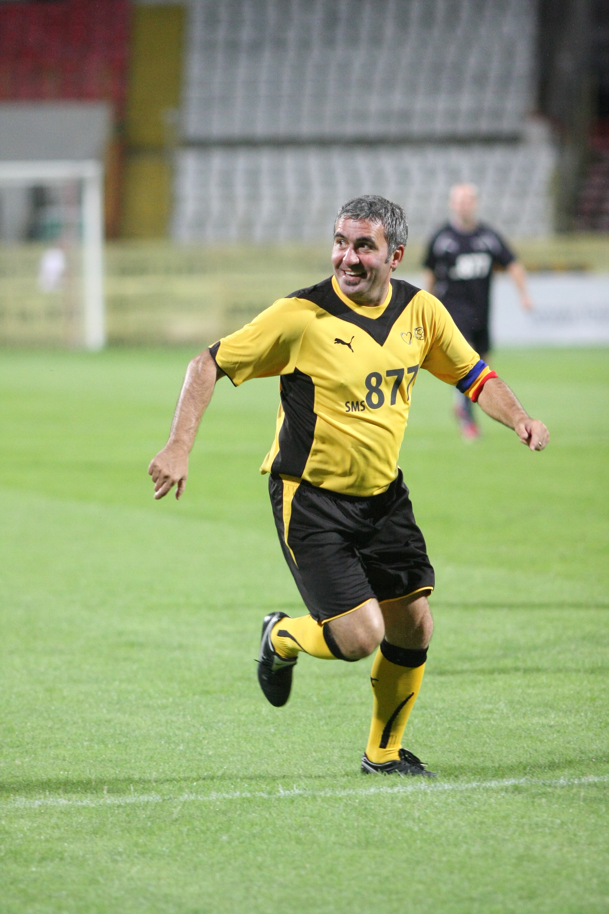 Gheorghe Hagi, the best Romanian football player.